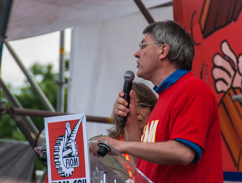 Maurizio Landini durign a FIOM rally.